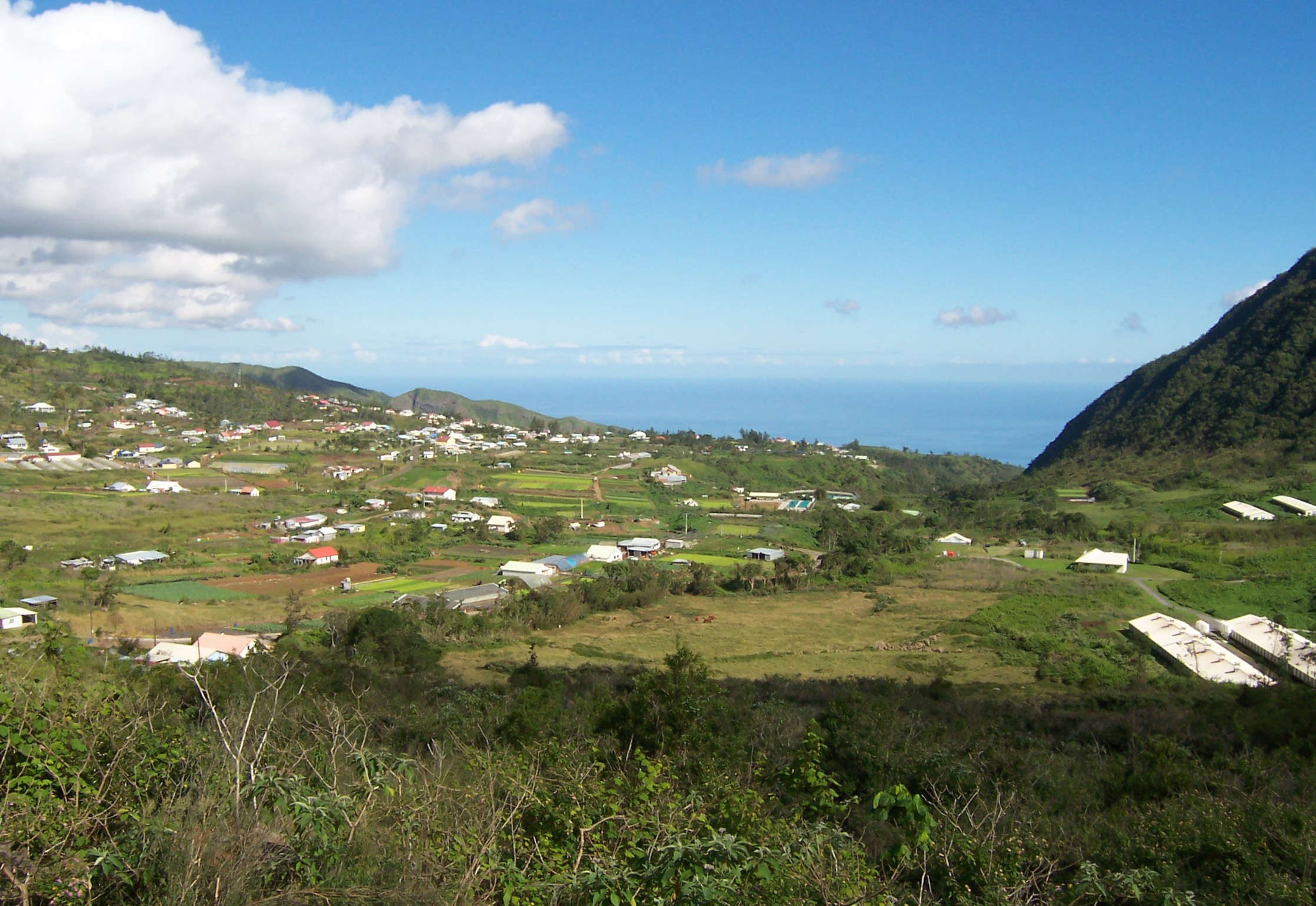 The small village of Dos d'Âne, a mountain hamlet of the french commune of La Possession, on Réunion island